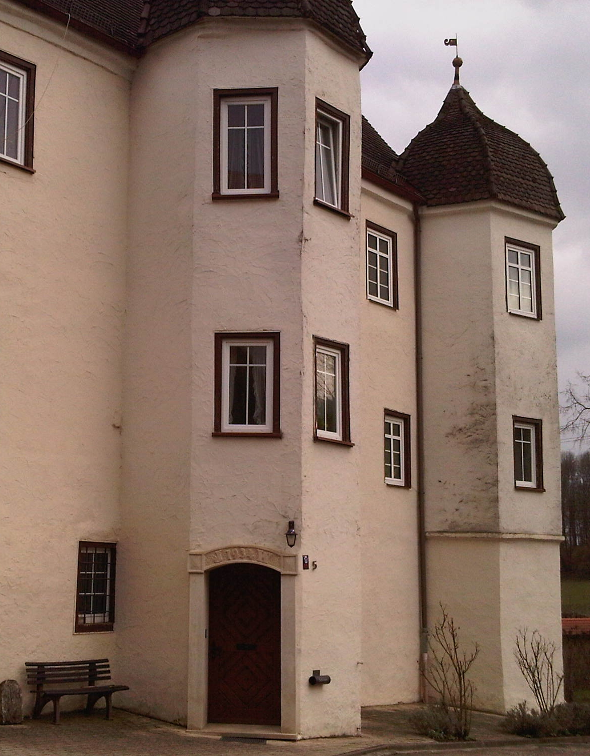 Part of the former Benedictine Abbey at Anhausen (1125 - 1536)